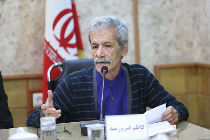 Kazem Firouzmand